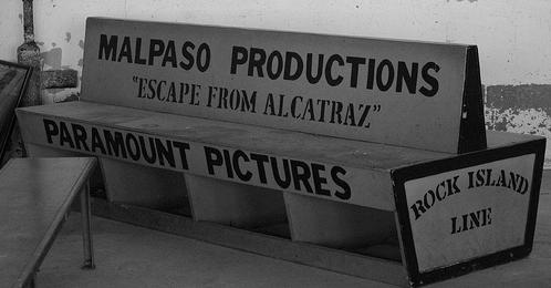 A bench creation, after the Eastwood's film 'Escape from Alcatraz'